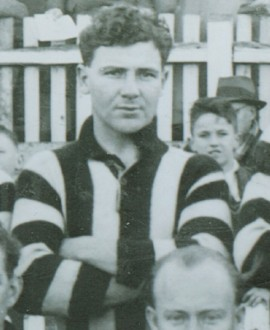 Photograph of Des Negri in 1942